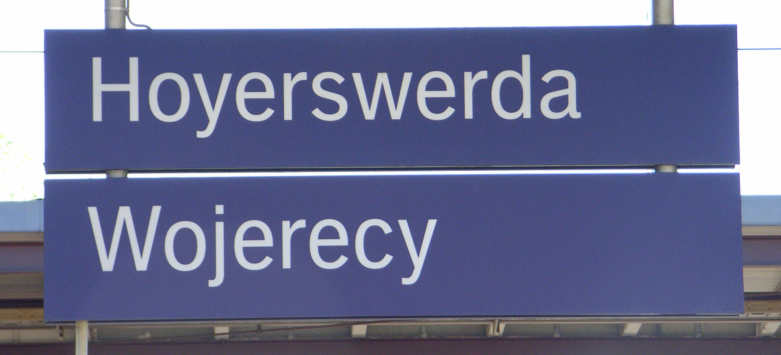 information sign at the Hoyerswerda train station with the German and the Sorbian name of the town